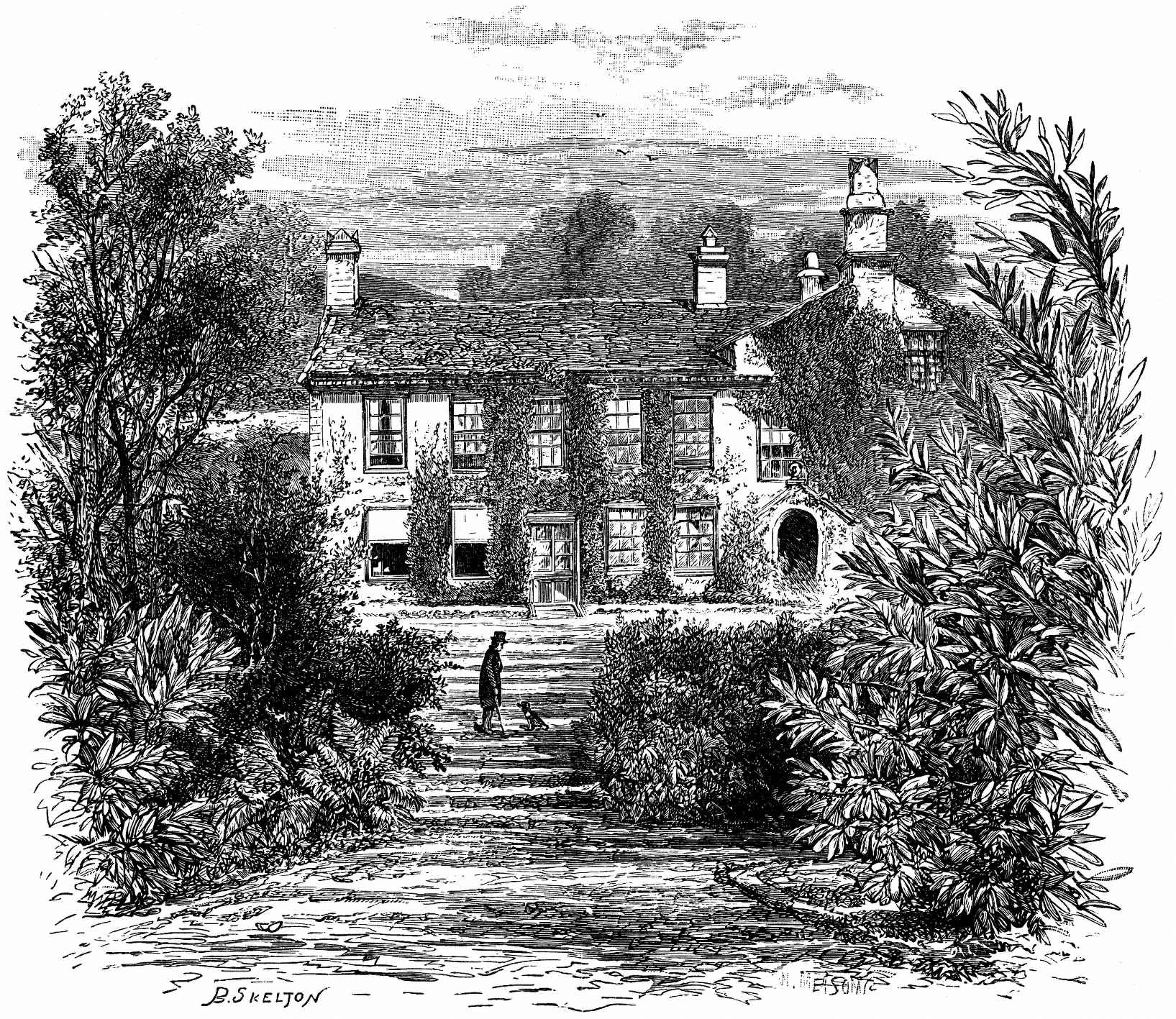 William Wordsworth's House, Rydal Mount